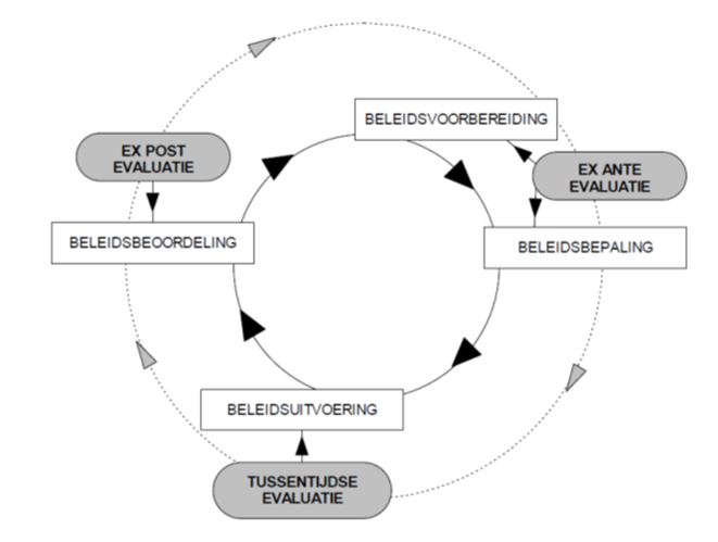 Different types of policy evaluations are used at different points of the policy cycle